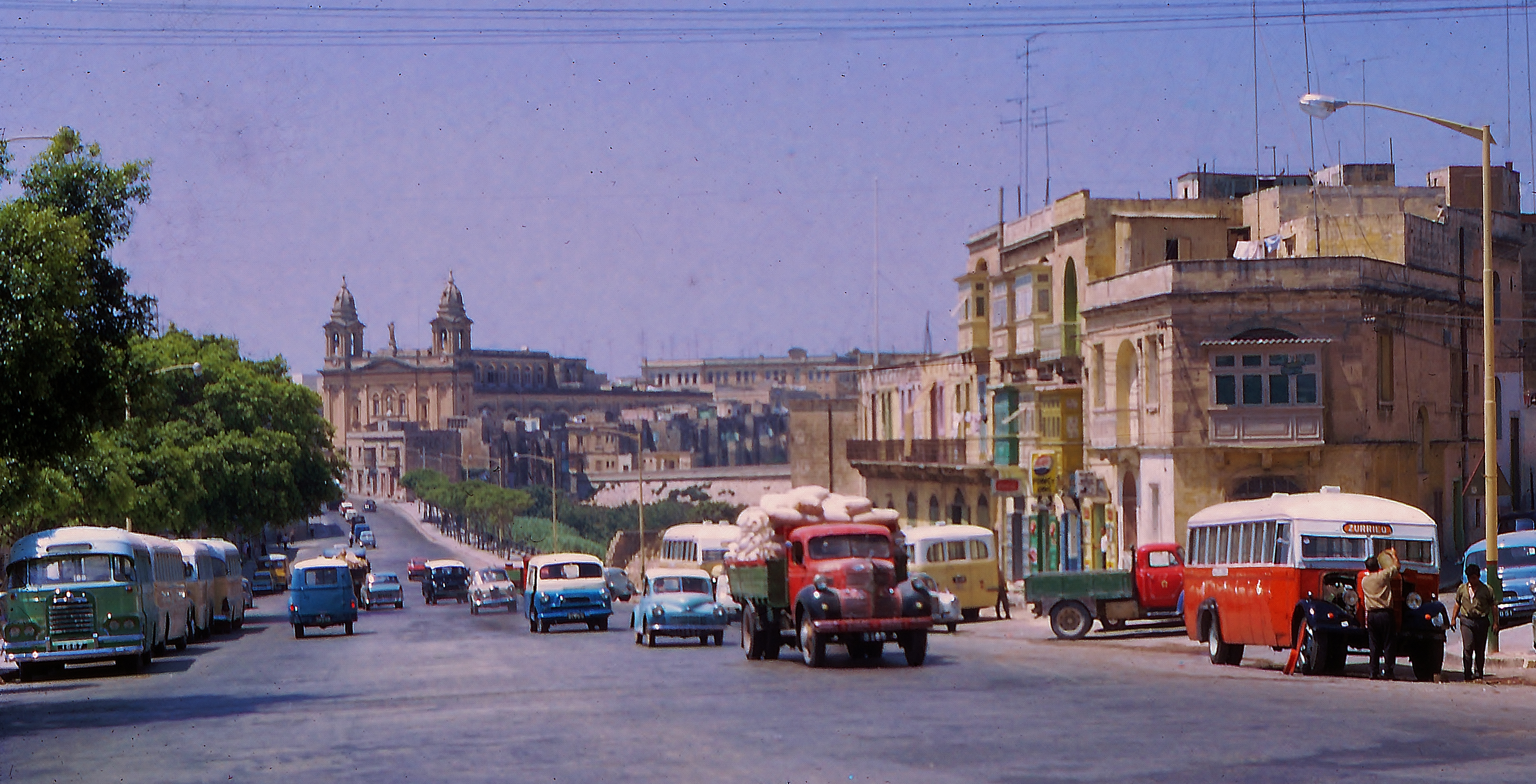 Marsa is located on the western limits if Valletta's Grand Harbour. Back in 1967, the routes and destinations of the eccentric but quaint buses in Malta could be discerned by the colour of their brilliantly coloured livery. e.g. the Red Bus, the Green Bus, the Yellow Bus, the Blue Bus.. Many of these much loved workhorses had stripes. Dominating the skyline is the parish Church of the Holy Trinity.